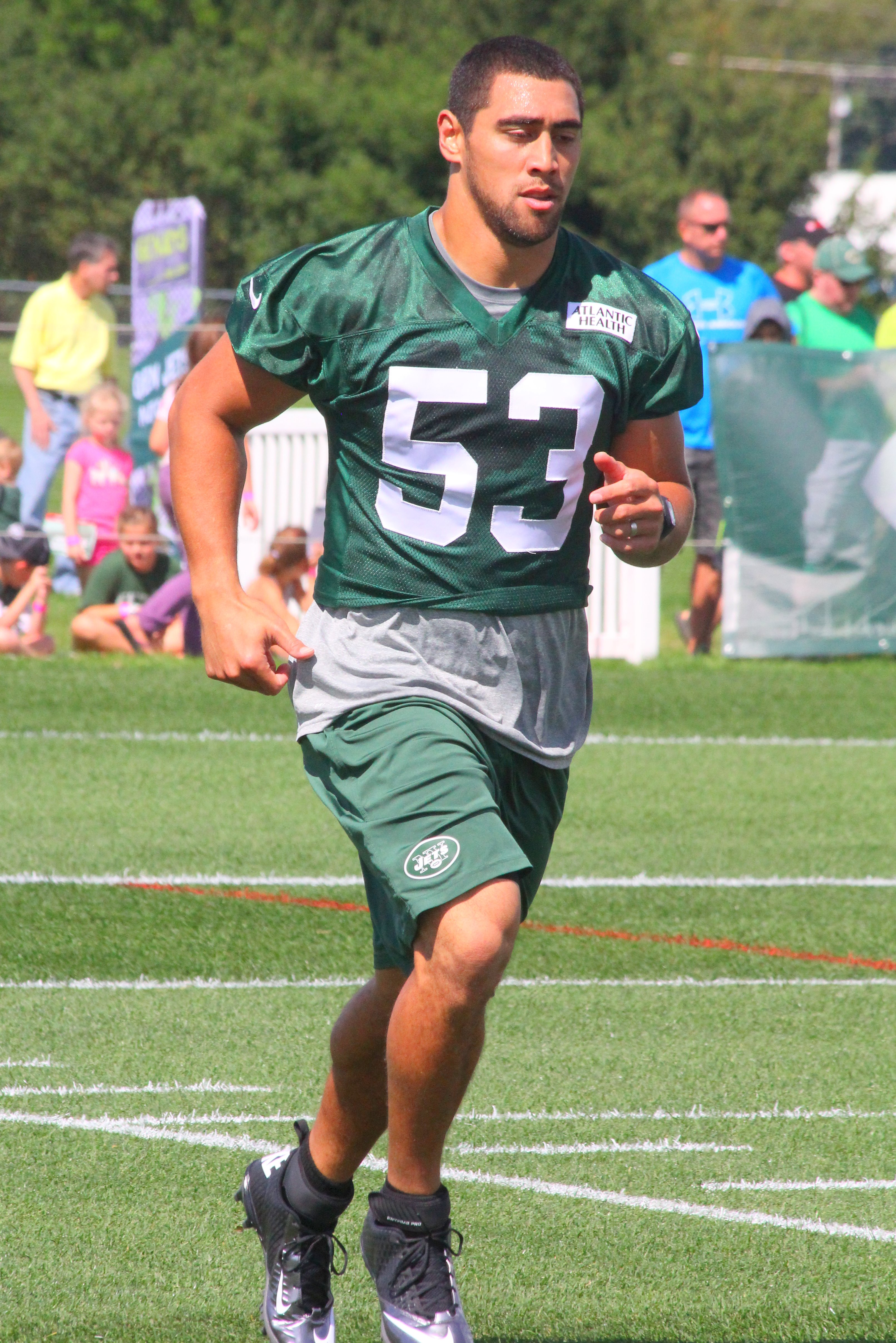 Josh Mauga at New York Jets training camp.